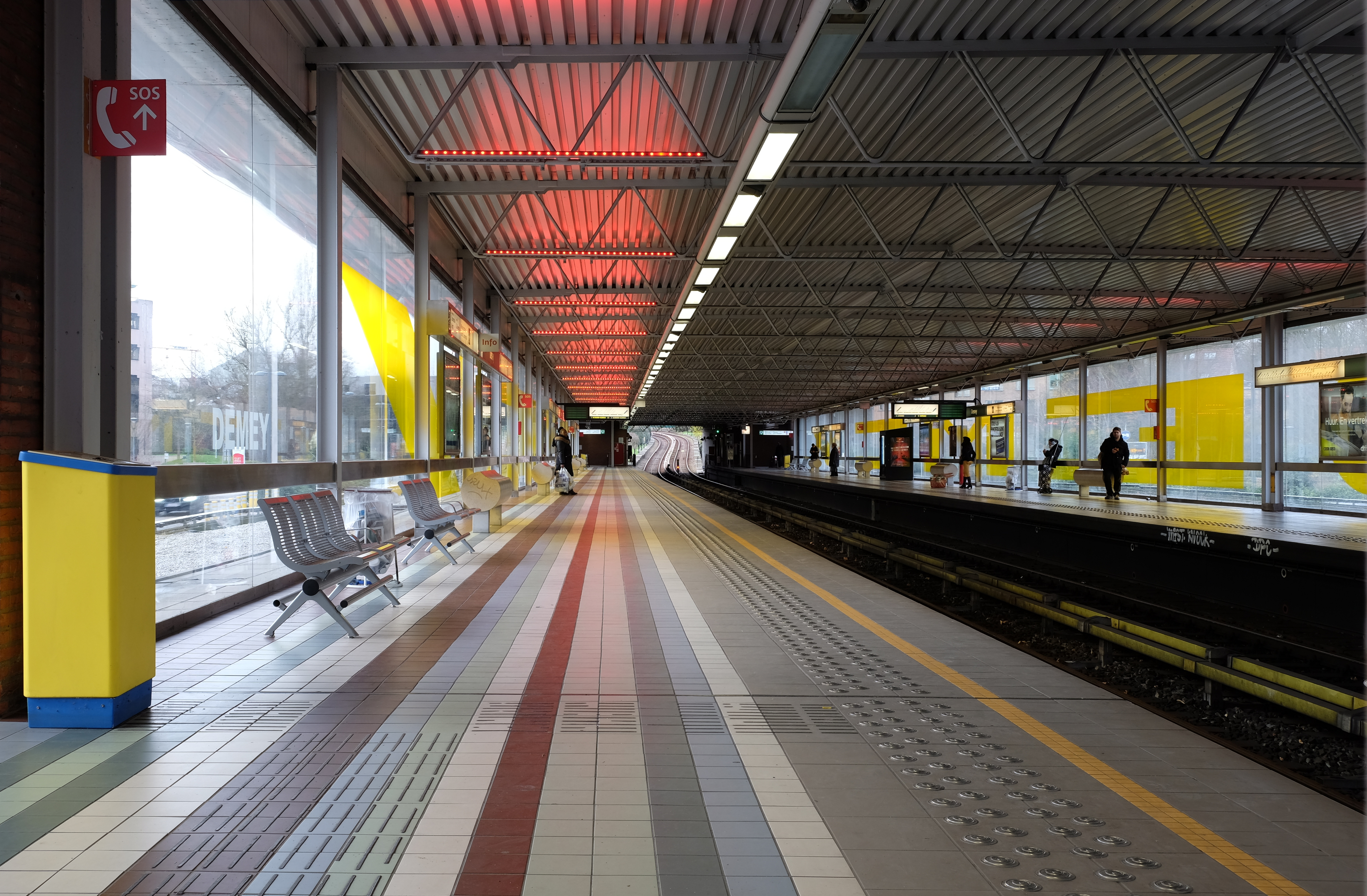 Demey station, looking West from the Herrmann-Debroux bound platform (Auderghem, Belgium)